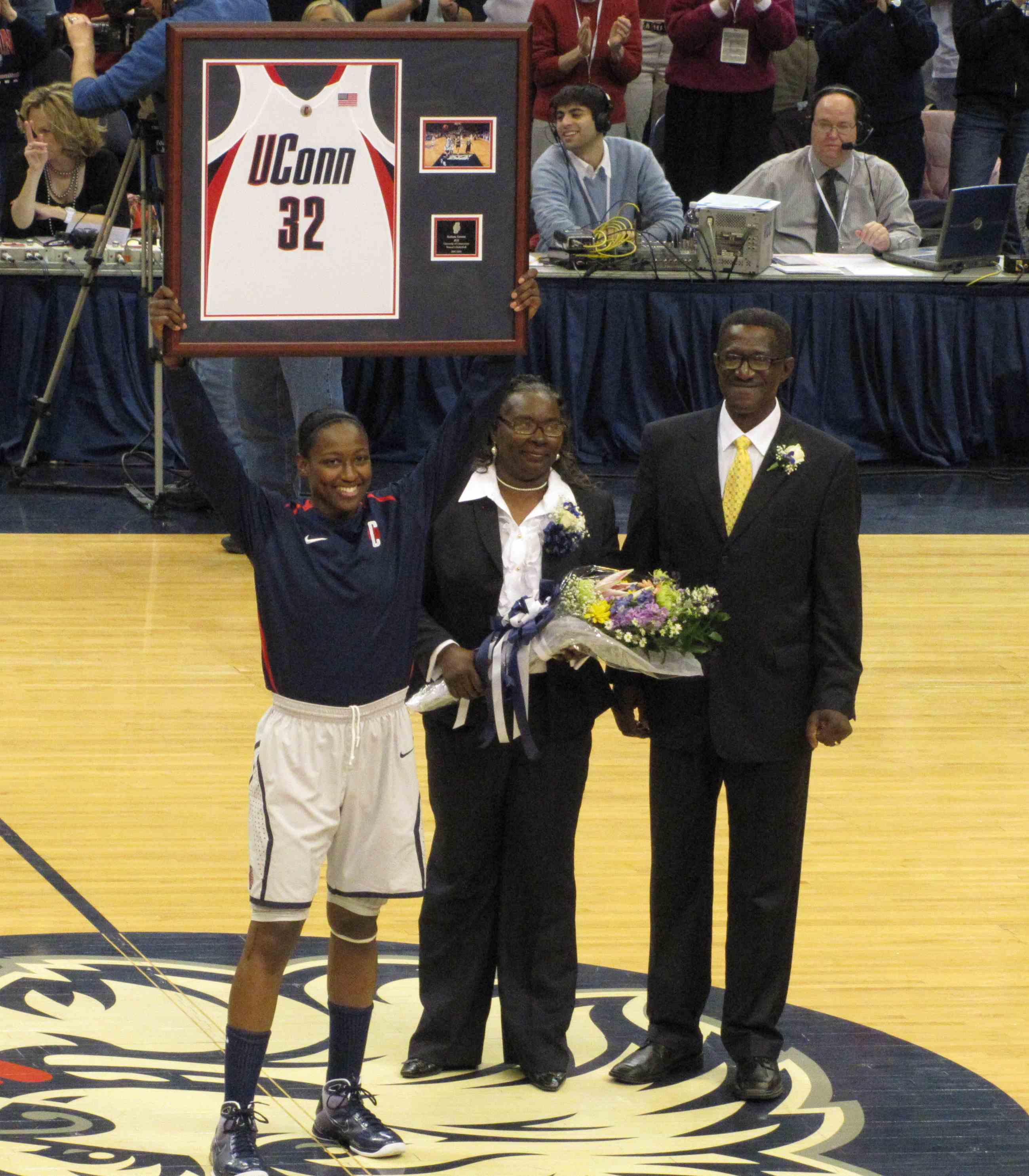 Prior to the last home game of the season, the University of Connecticut basketball program honors players in their last year of eligibility (normally seniors), with a summary of their accomplishments, and a framed jersey. This is a picture of Kalana Greene and her parents at the Senior Day ceremony.